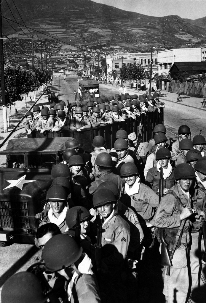 Fresh and eager U.S. Marine troops, newly-arrived at the vital southern supply port of Pusan, are shown prior to moving up to the front lines. August 1950. INP. (USIA) Exact Date Shot Unknown NARA FILE #: 306-PS-50-11298 WAR & CONFLICT BOOK #: 1386